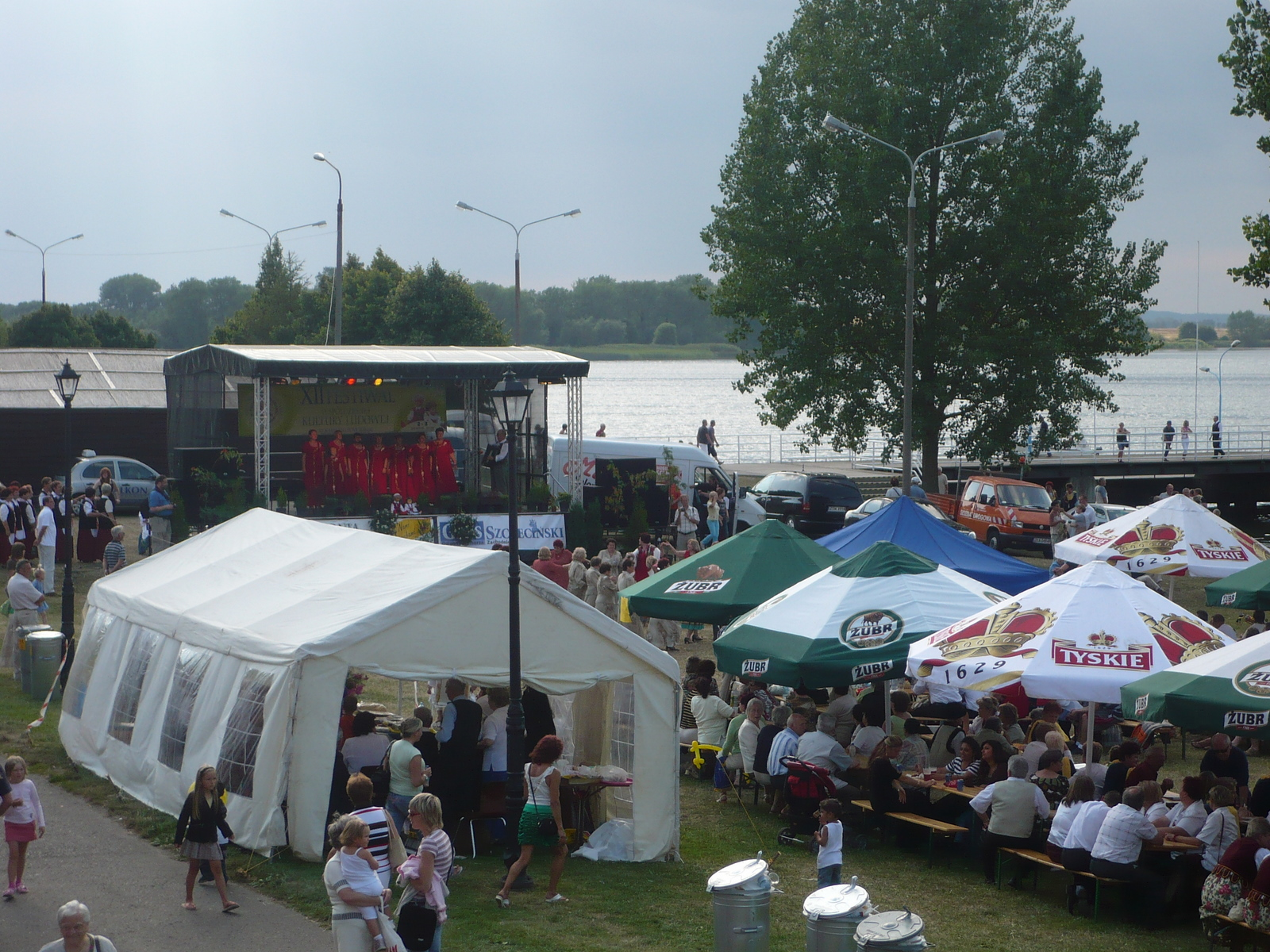 12th Modern Folk Culture Festival in Kamień Pomorski, Poland